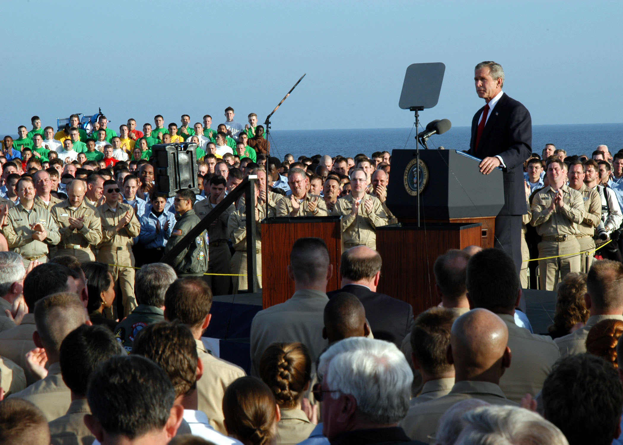 The Pacific Ocean (May 1, 2003) -- President George W. Bush addresses the Nation and Sailors from the flight deck aboard USS Abraham Lincoln (CVN 72). President Bush is aboard Lincoln to address the Nation and Sailors upon their return from a 10 month deployment to the Arabian Gulf in support of Operations Enduring Freedom and Iraqi Freedom. U.S. Navy photo by Photographer's Mate 3rd Class Tyler J. Clements (RELEASED)